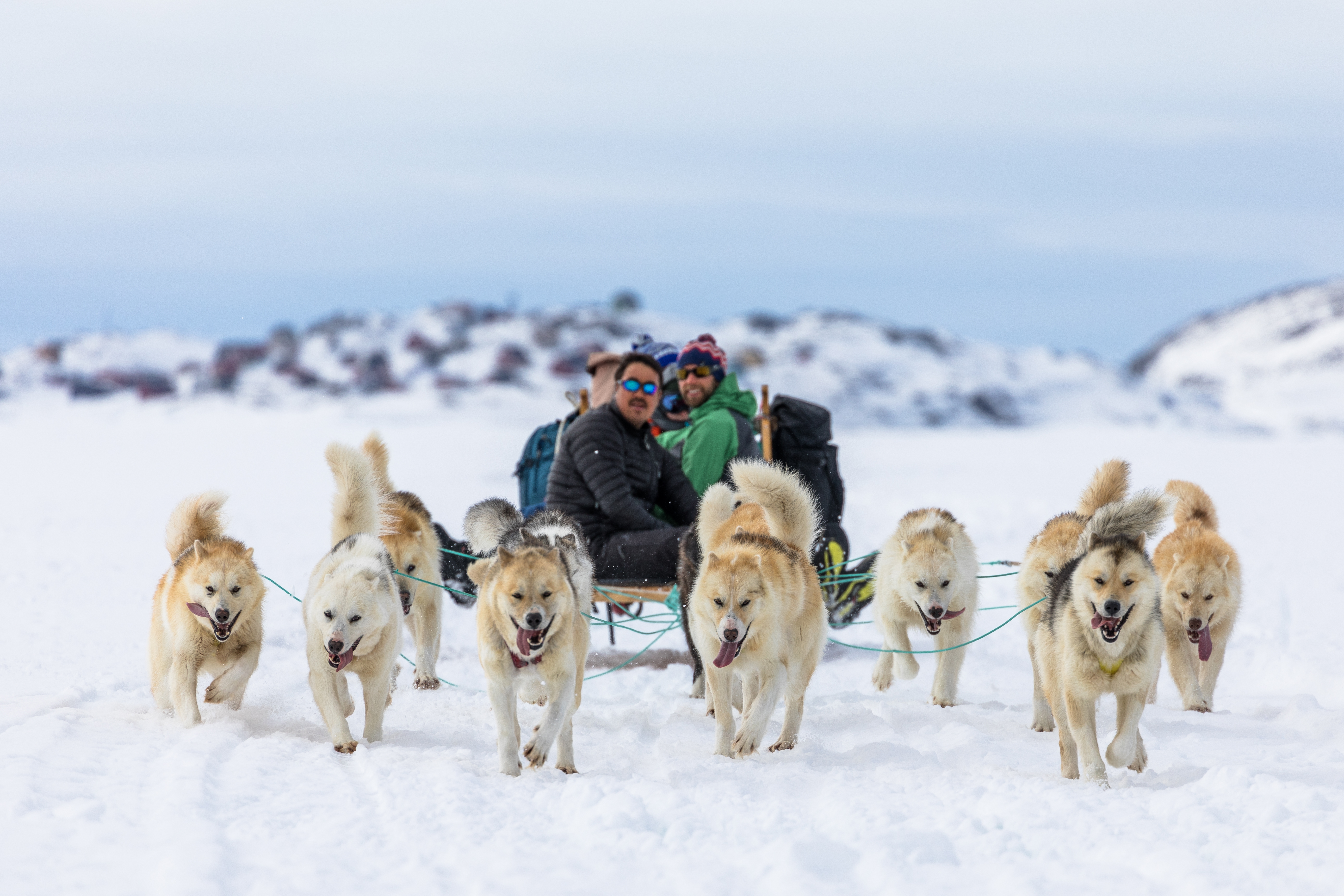 Traveling with Inuit hunters over the frozen fjords of Greenland was a mind-blowing experience I will never forget. East Greenland Dog Sled Expedition with Pirhuk (